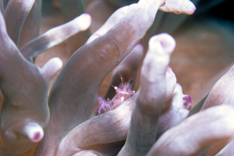 Periclimenes tenuipes, Gulf of Eilat, Red Sea